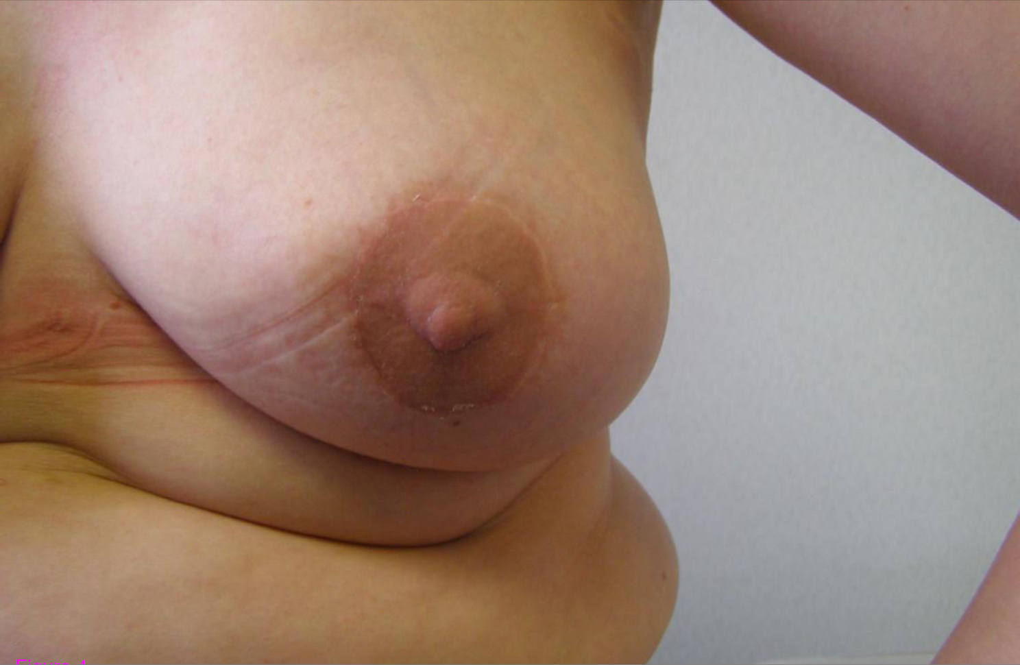 Nipple reconstruction followed by tattooing.